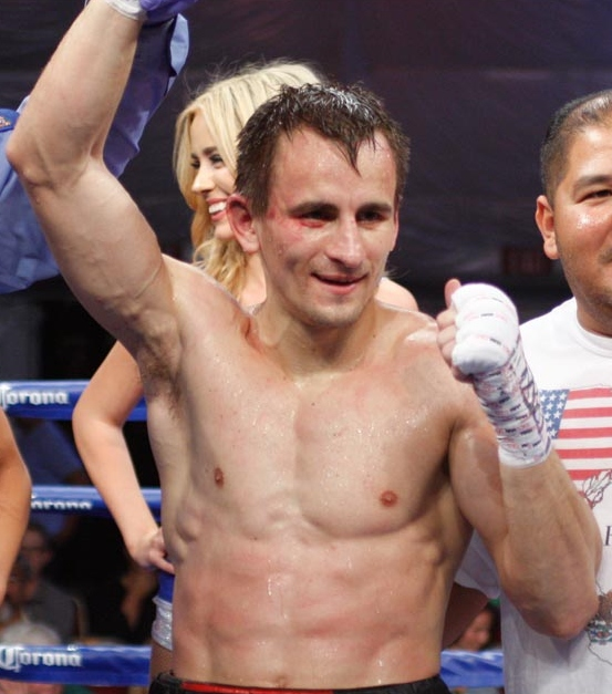 Boxcino Lightweights 2-21-14